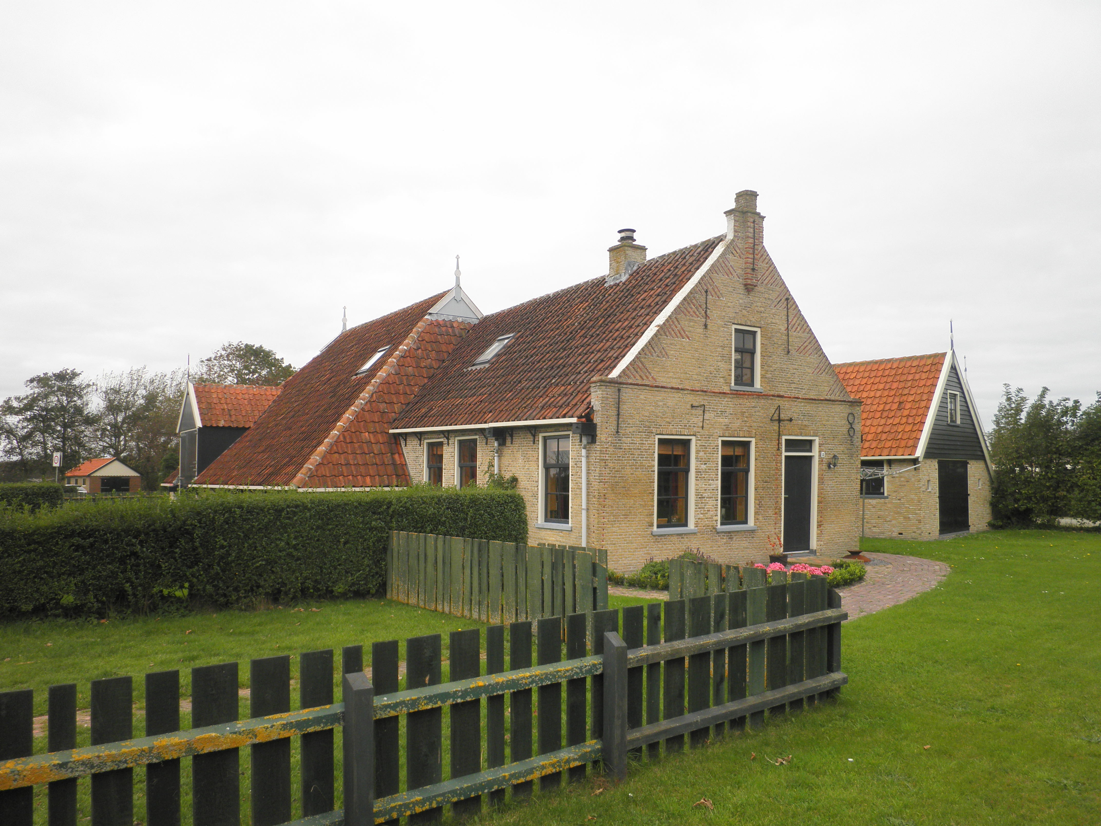 Farmhouse with anchor plates making up the year 1648, on Lies Terschelling with closers in red brick.Unknown boerderij met muurankers gedateerd 1648 in lies op terschelling, met klezoren in rode steen.